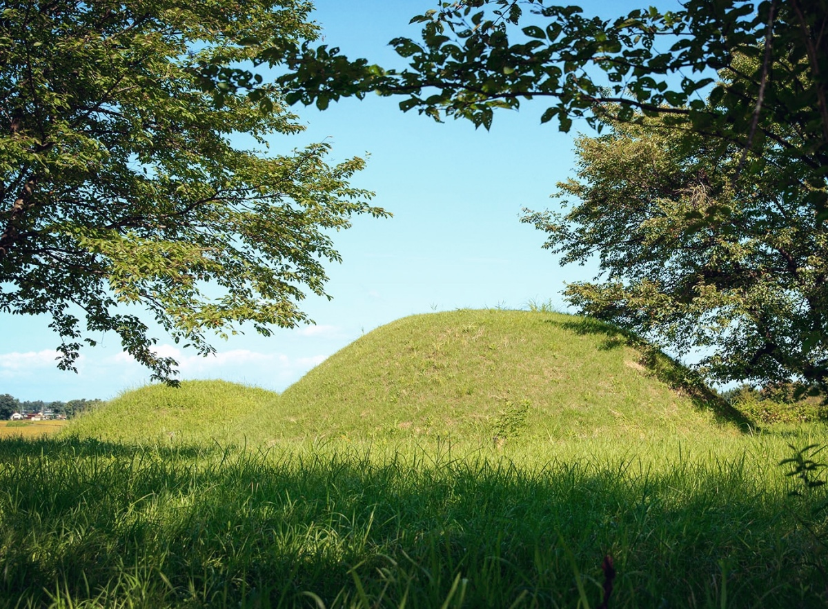 A kofun tomb within the Miyaguchi Kofun Group, Jōetsu, Niigata , Japan